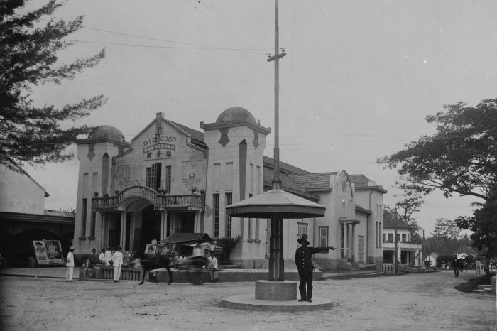 Cinema in Medan with posters of the movie The Lesson (1918) with Constance Talmadge.